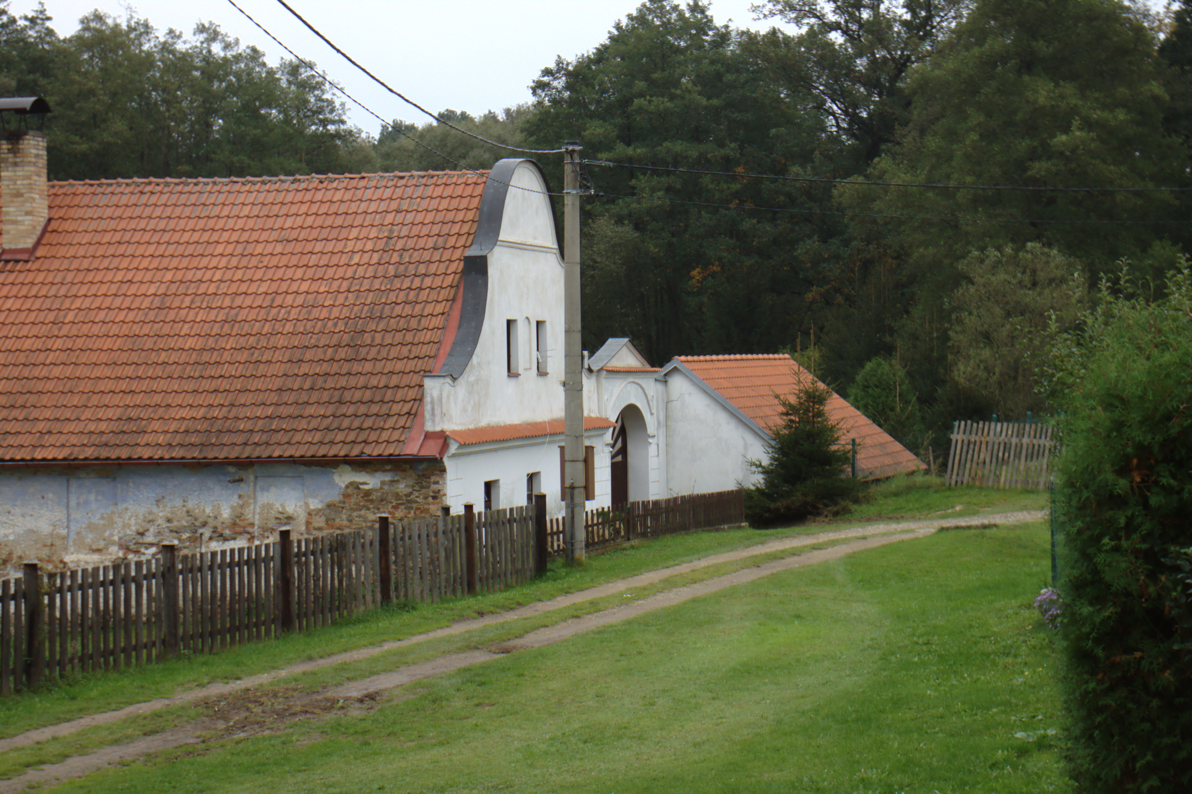 Various buildings in Záříčí near Mladá Vožice, South Bohemian Region, CZ